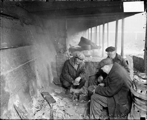 Three hobos, Chicago, 1929. Informal three-quarter length portrait of three hobos sitting under a covered structure in Chicago, Illinois. Debris is visible in the foreground and background. Text on image reads: Hoboe's 'Jungle' Under Loop Street.